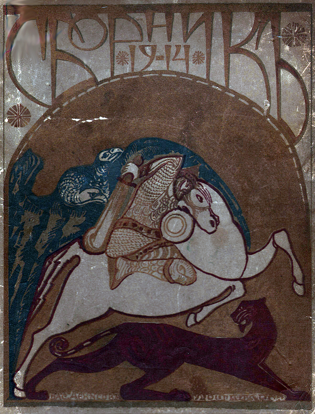 «1914 год», the title-page